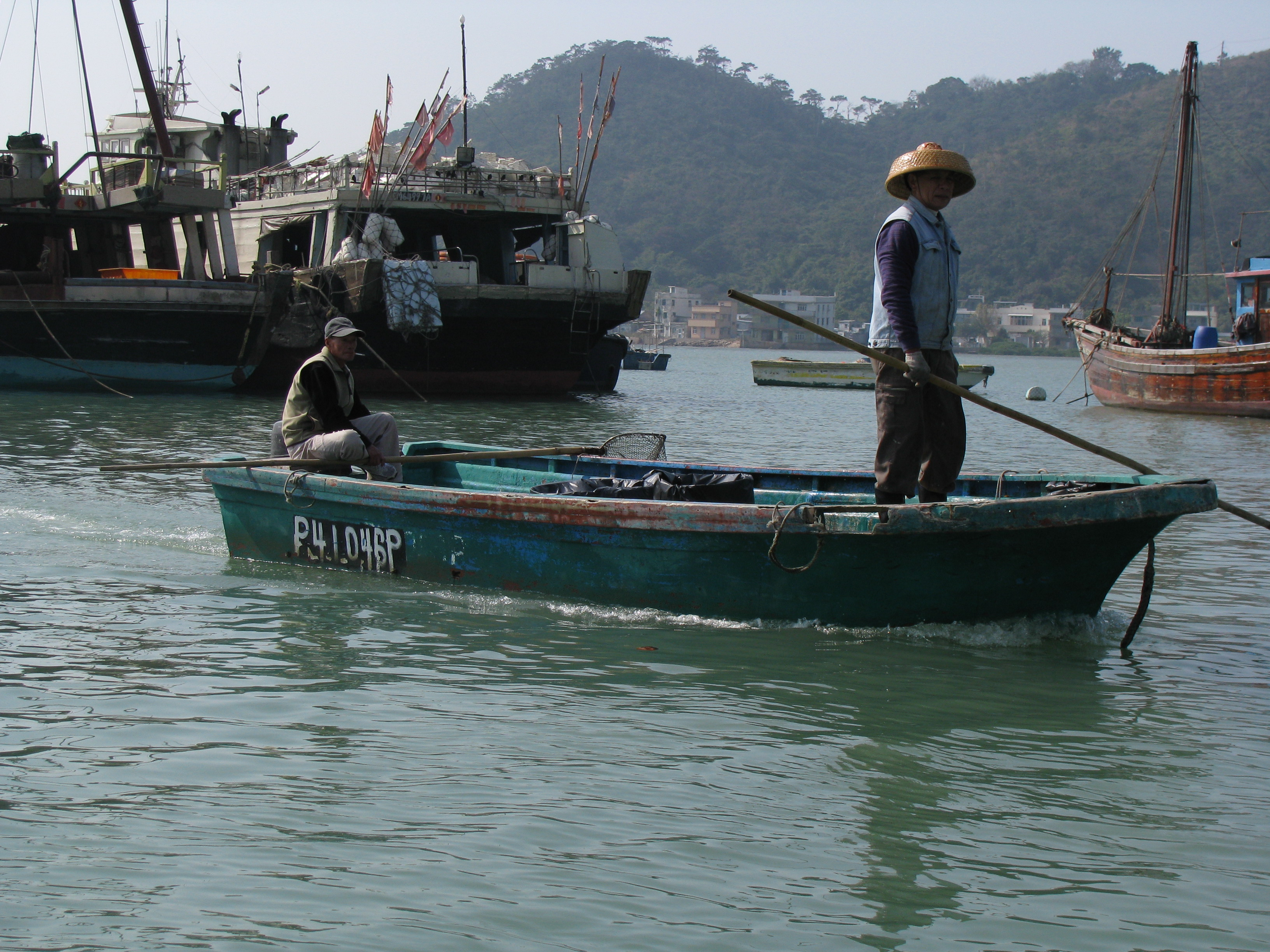 Two Tanka boatmen